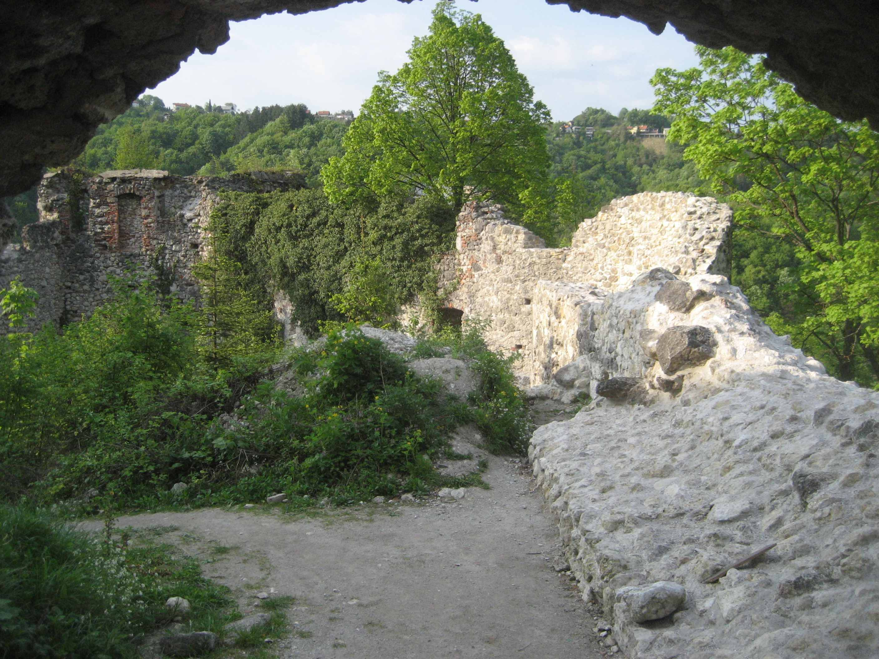 Rion of Samobor Castle